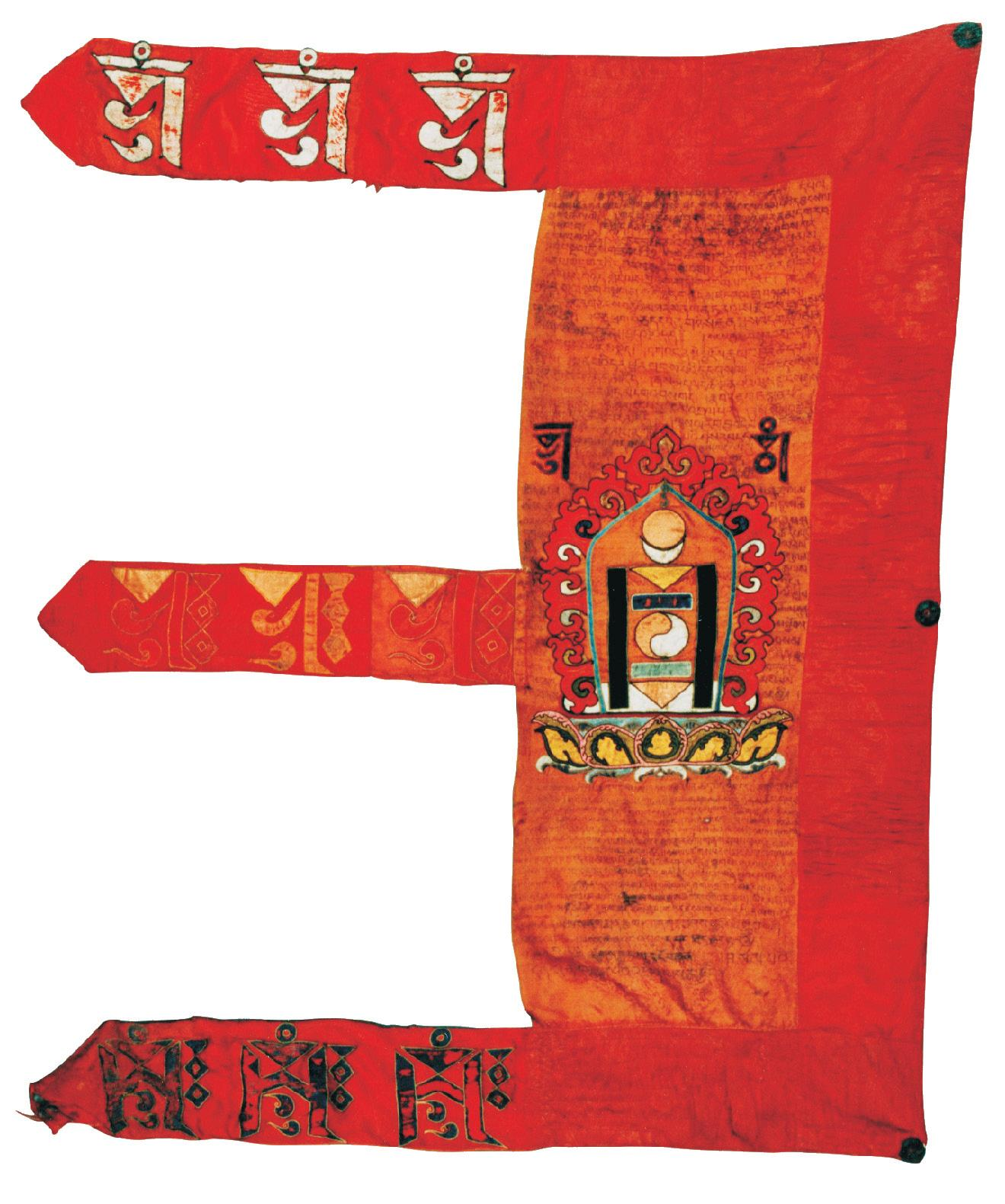 Flag of the Bogd Khaanate Монгол: Олноо Өргөгдсөн Монгол Улсын далбаа